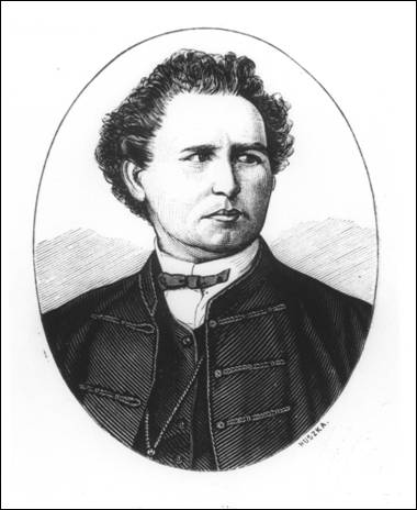 Gyula Miklósy Hungarian actor (1839-1891)